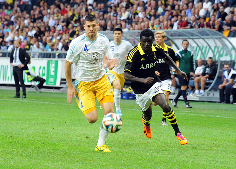 During AIK - FC Astana (2014).